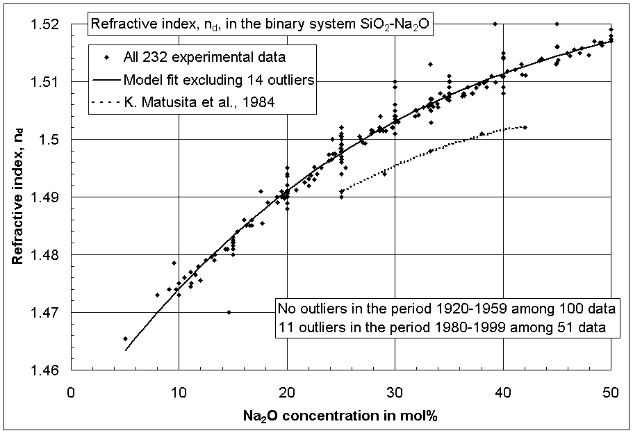 Refractive index in the system SiO2-Na2O. Dummy variables can be used to quantify systematic differences of whole dataseries from one investigator, e.g., from: K. Matusita, C. Ihara, T. Komatsu, R. Yokota: "Photoelastic Effects in Silicate Glasses"; J. Am. Ceram. Soc., vol. 67, 1984, p 700-704.